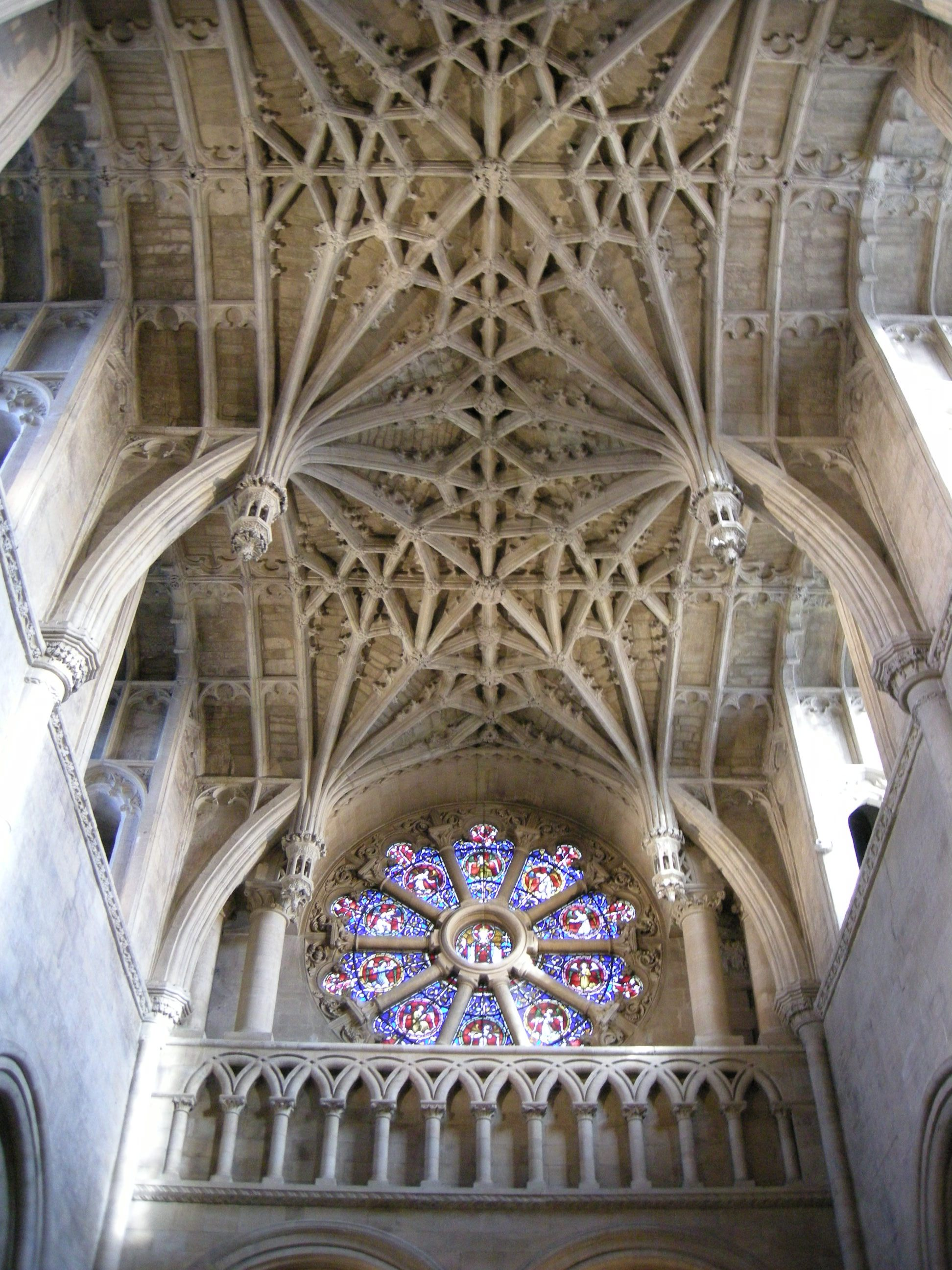 Christ Church Cathedral, Oxford: rose window and clerestory vault